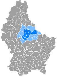 A map of communes of Luxembourg after mergers of 2006-01-01, with the Nordstad development region highlighted. The communes in dark blue are the five core communes of Nordstad, whilst the area is lighter blue are the nine rural communes.